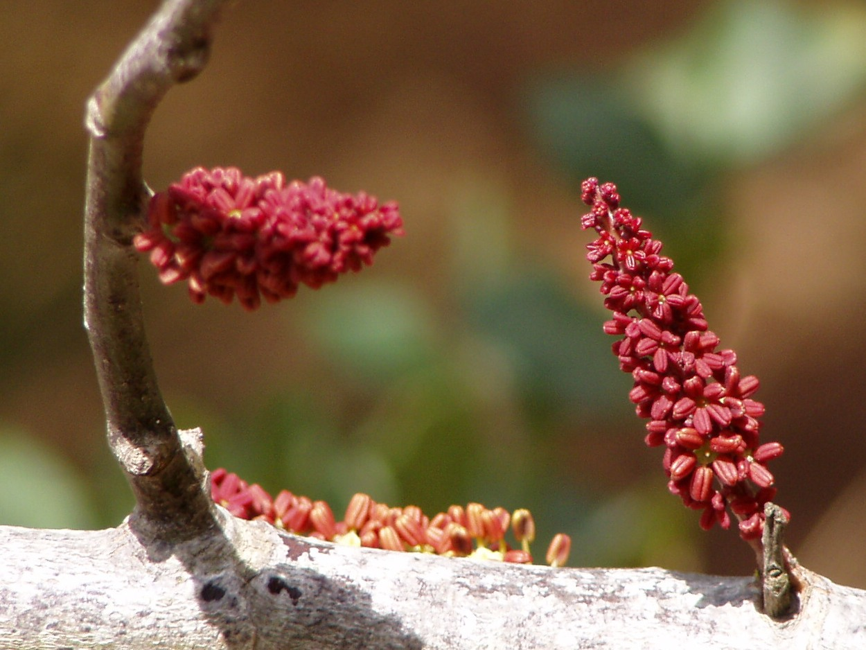 Carob Tree flower, in Portimão, Portugal.